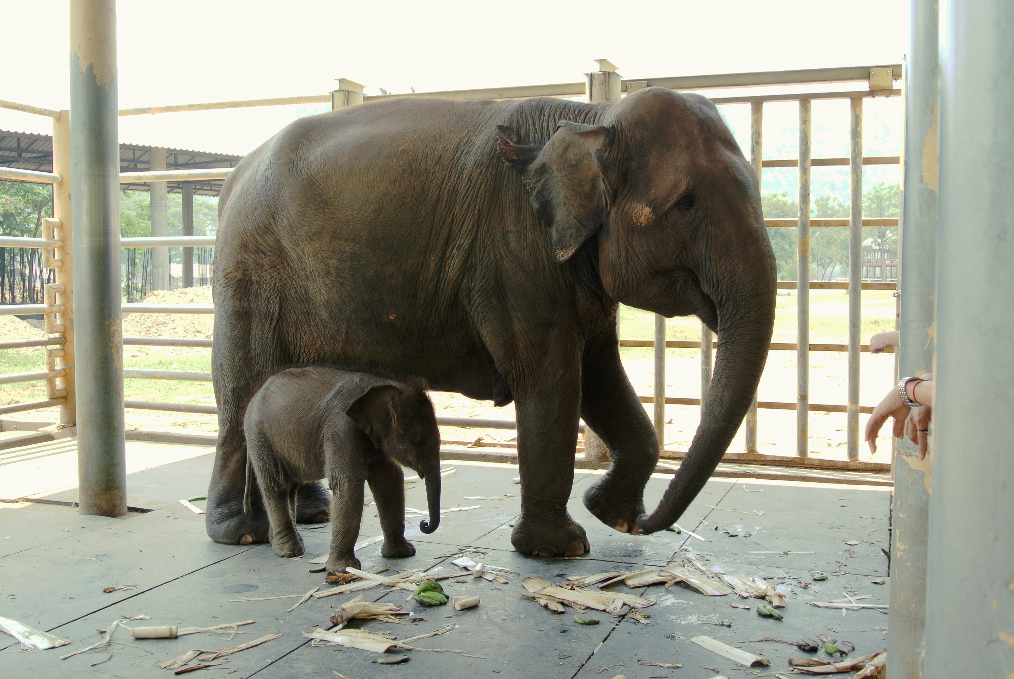 Female elephant (Dok Ngern, 15 years) with newly born Dok Mai (23 days) at Elephant Nature Park, near Chiang Mai, Thailand.